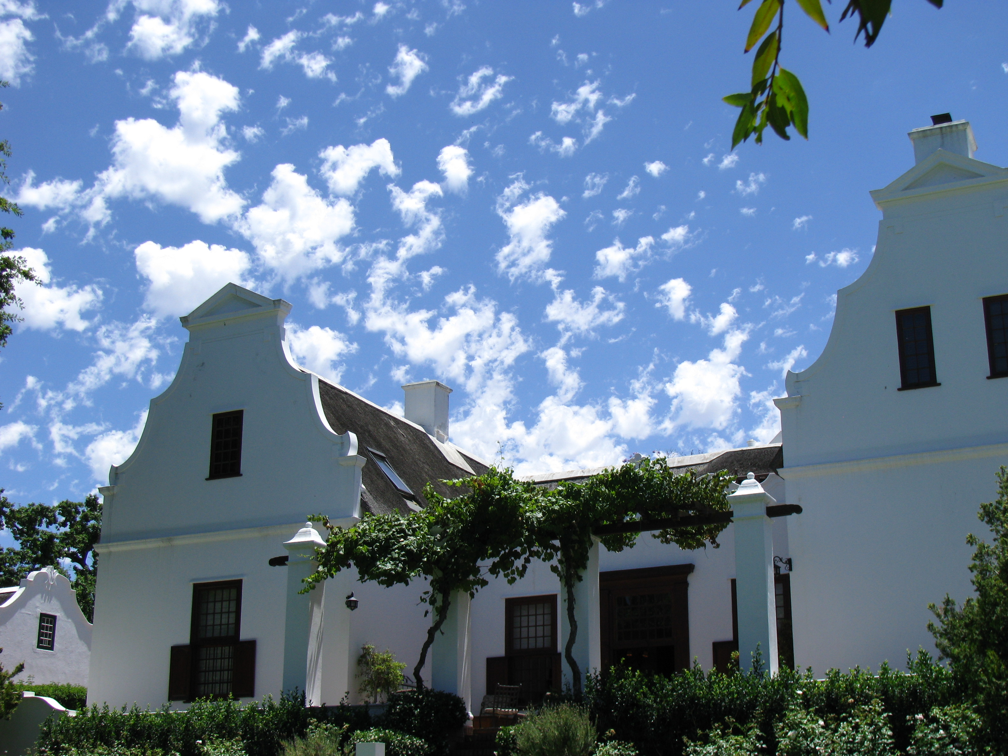 Manor House, Vrede and Lust wine estate, Franschhoek, South Africa